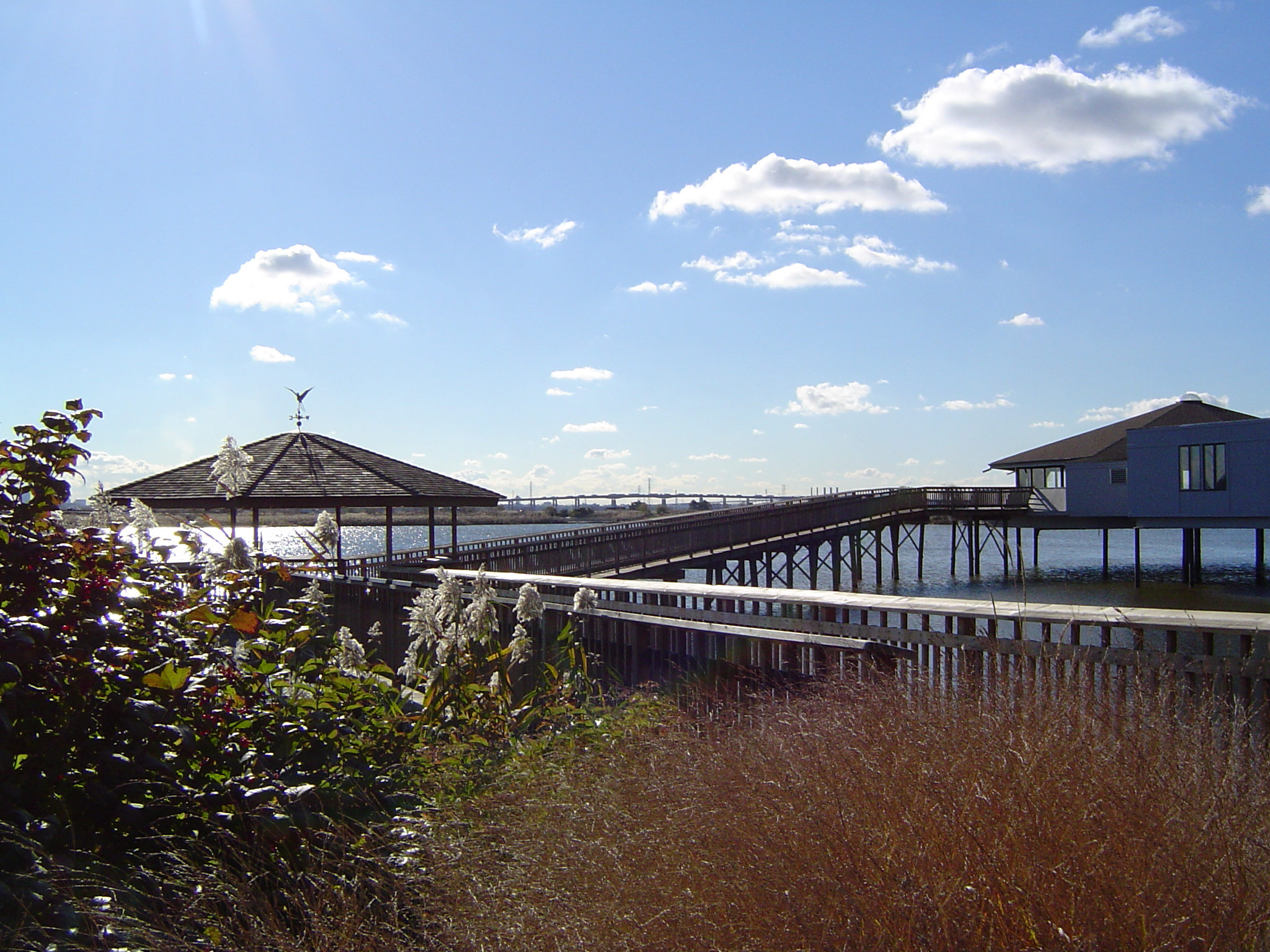 Winter at DeKorte Park, Lyndhurst, home of the New Jersey Meadowlands Commission headquarters. The complex includes the Meadowlands Environment Center.